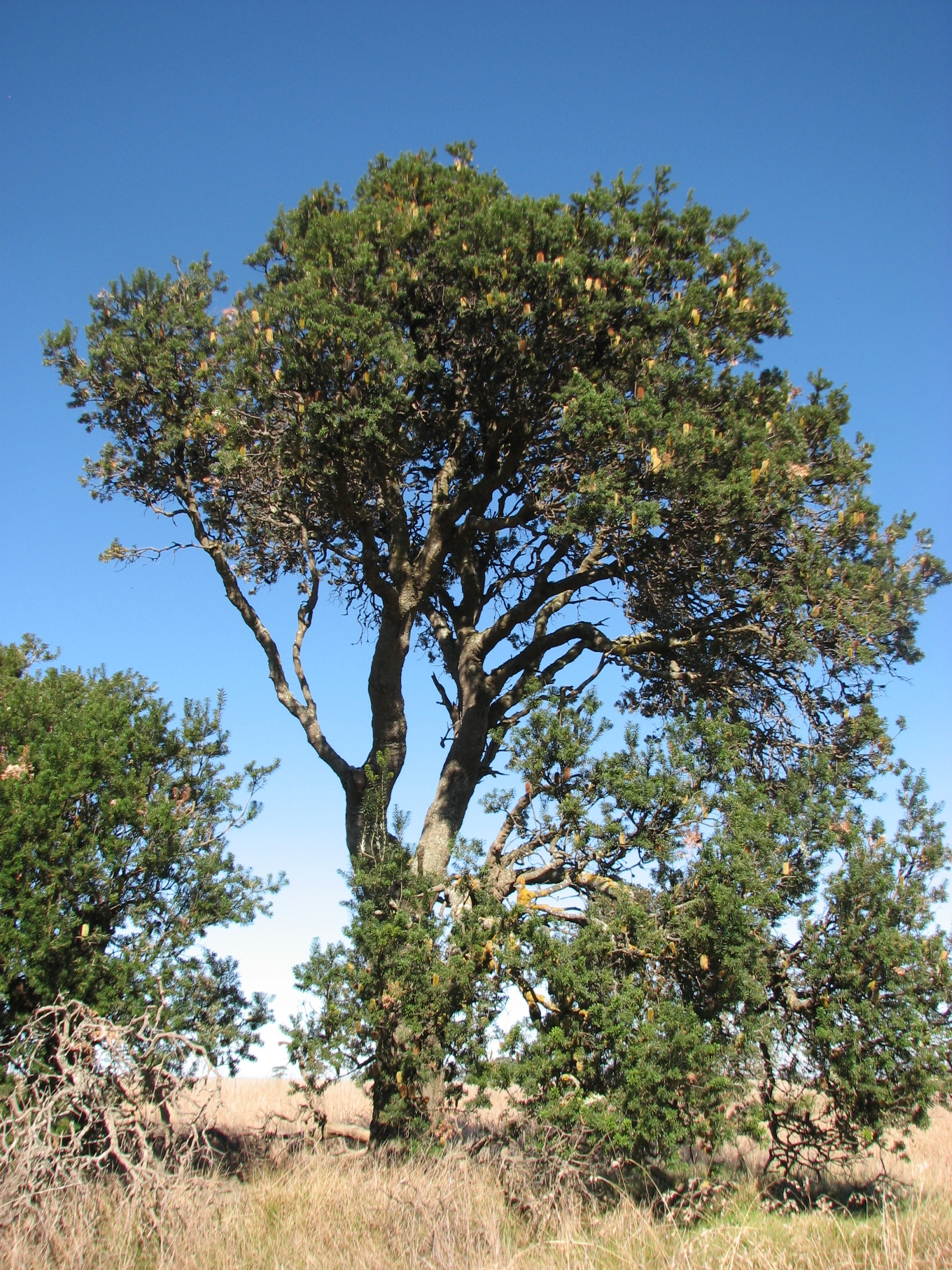 Banksia marginata, Illabarook Rail Line Nature Conservation Reserve, Victoria, Australia